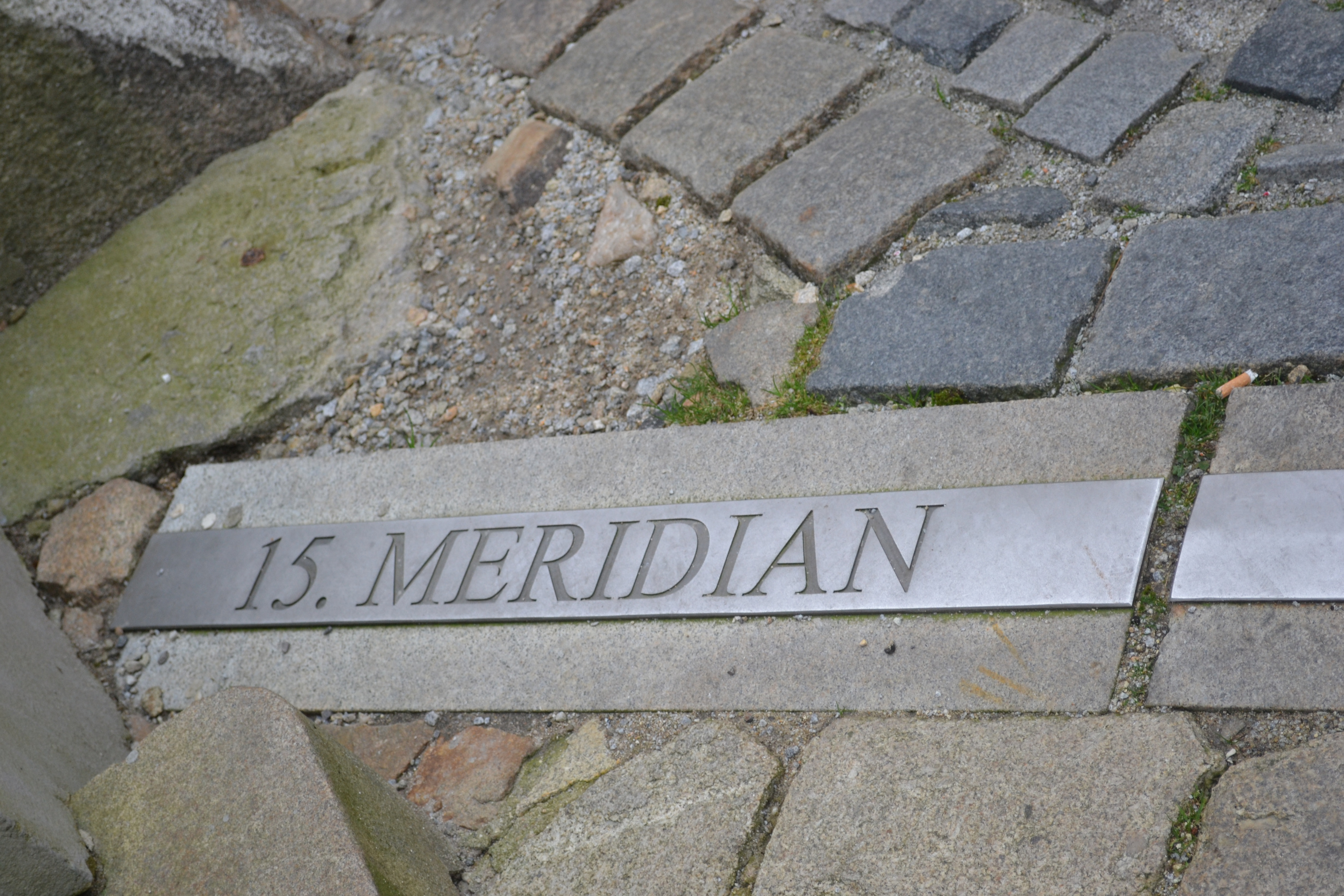 Mark of the 15th meridian in the pavement in Jindřichův Hradec, Czech Republic, next to the Church of the Assumption of the Virgin Mary.